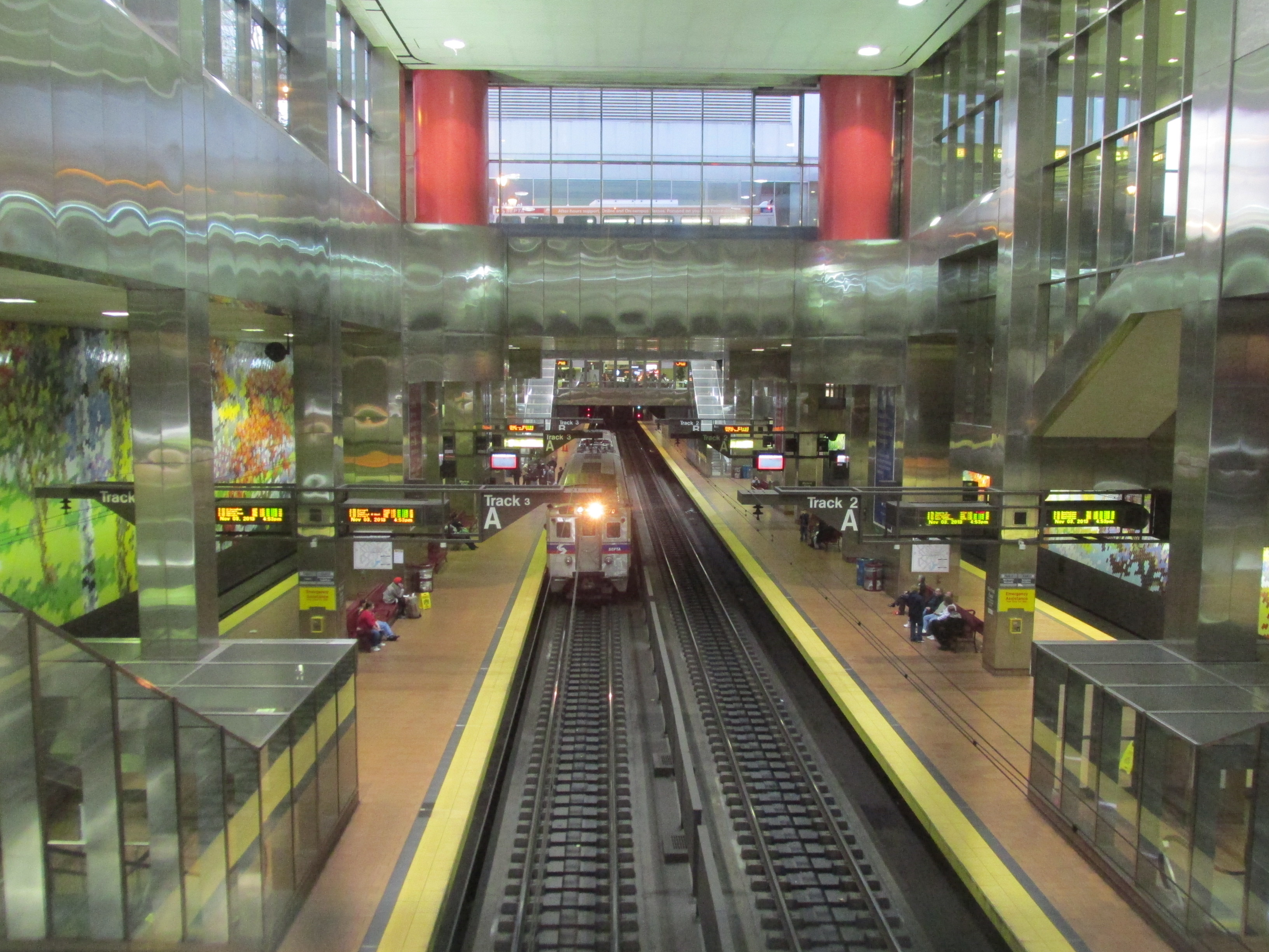 Train emerging from the Center City Commuter Connection at the Market East Station, Philadelphia Pennsylvania - 2013